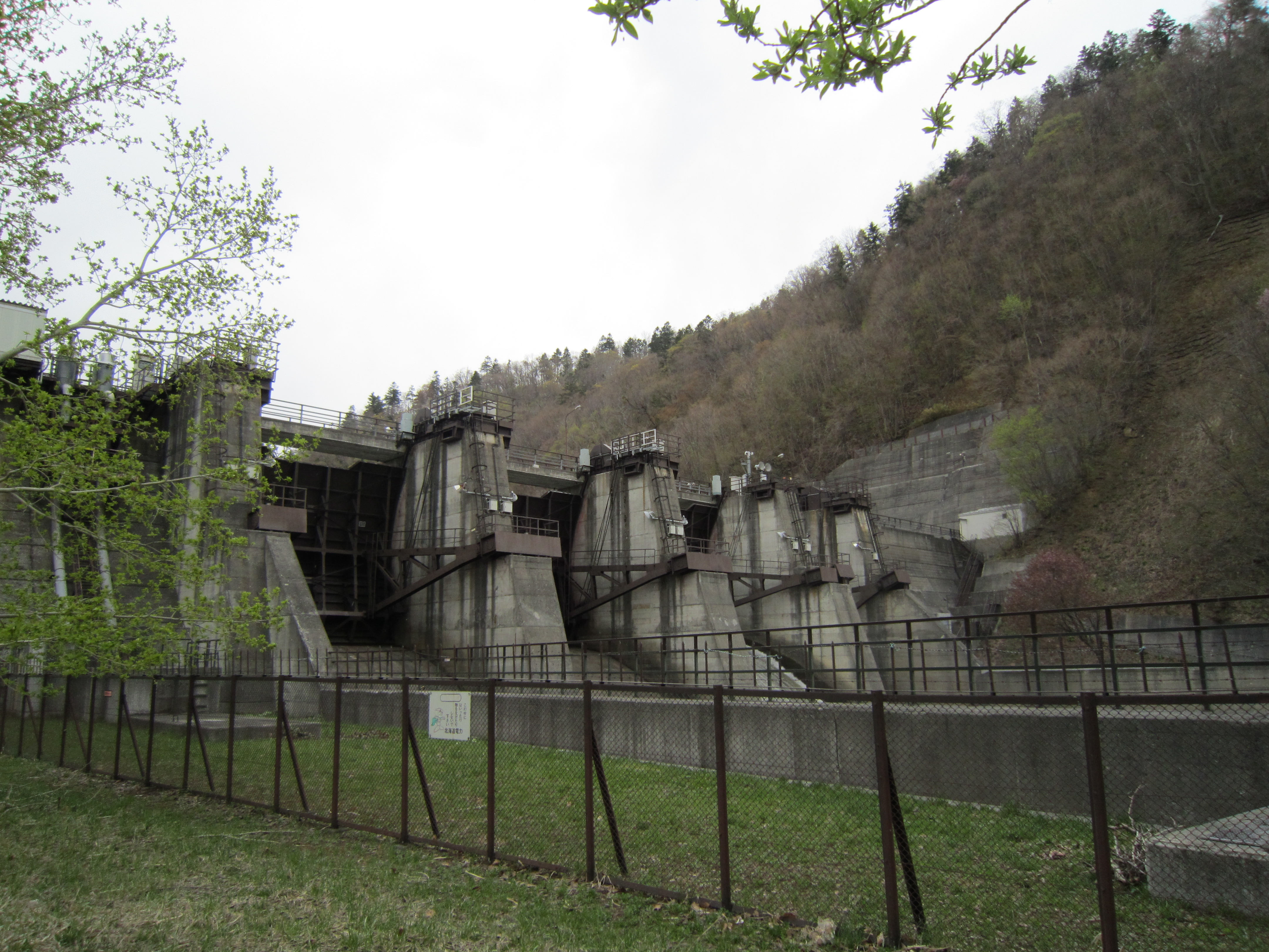 Toyama Dam of Sapporo